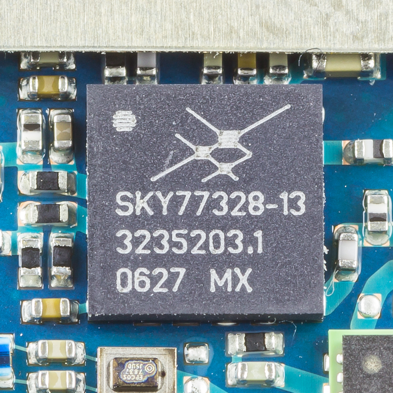 Sagem VS4 - Skyworks SKY77328-13 - iPAC Power Amplifier Module (PAM) for Quad-Band GSM / GPRS